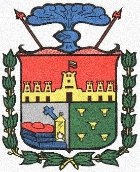 My version of the Carora coat of arms.